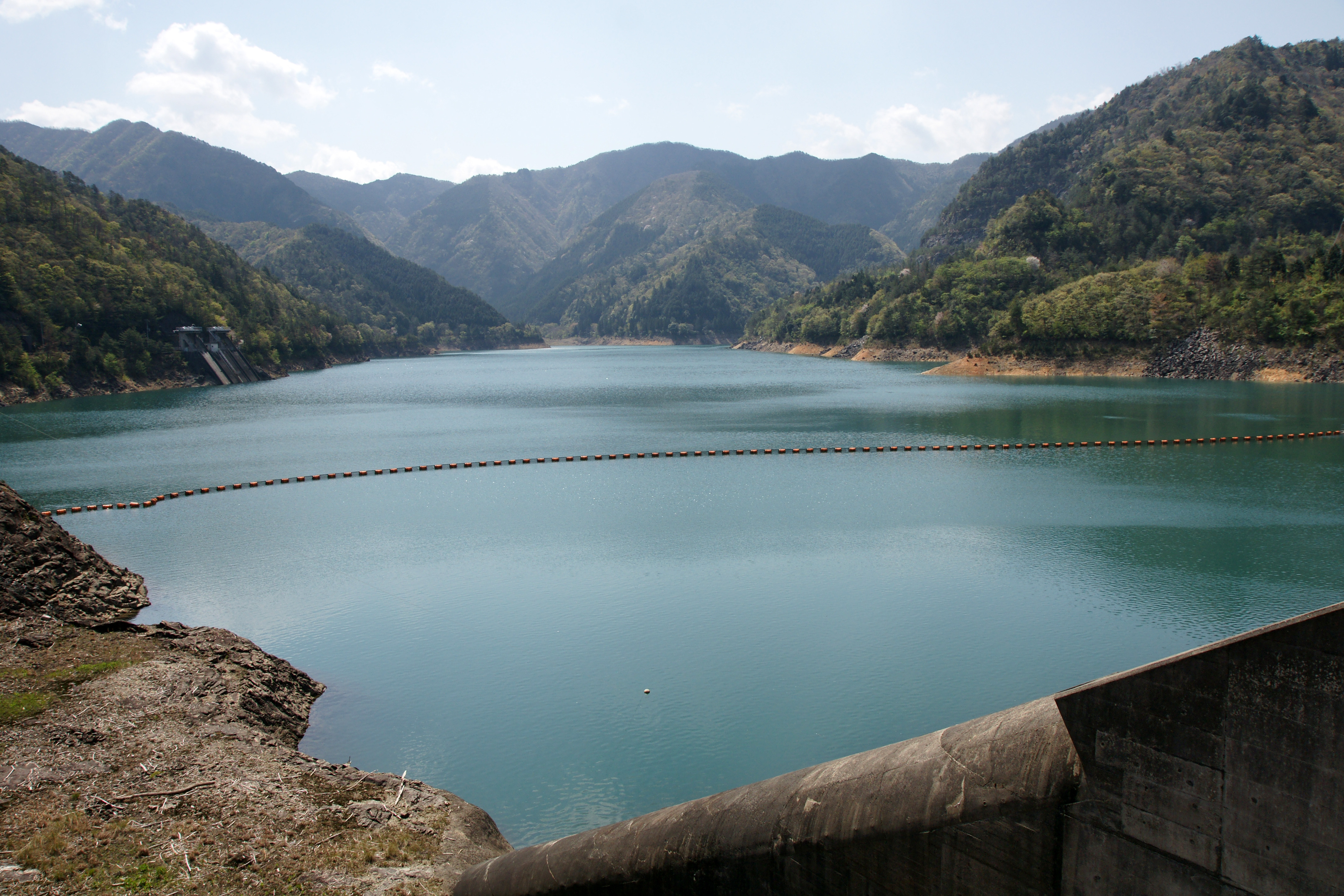 Tataragi Dam in Asago, Hyogo prefecture, Japan.